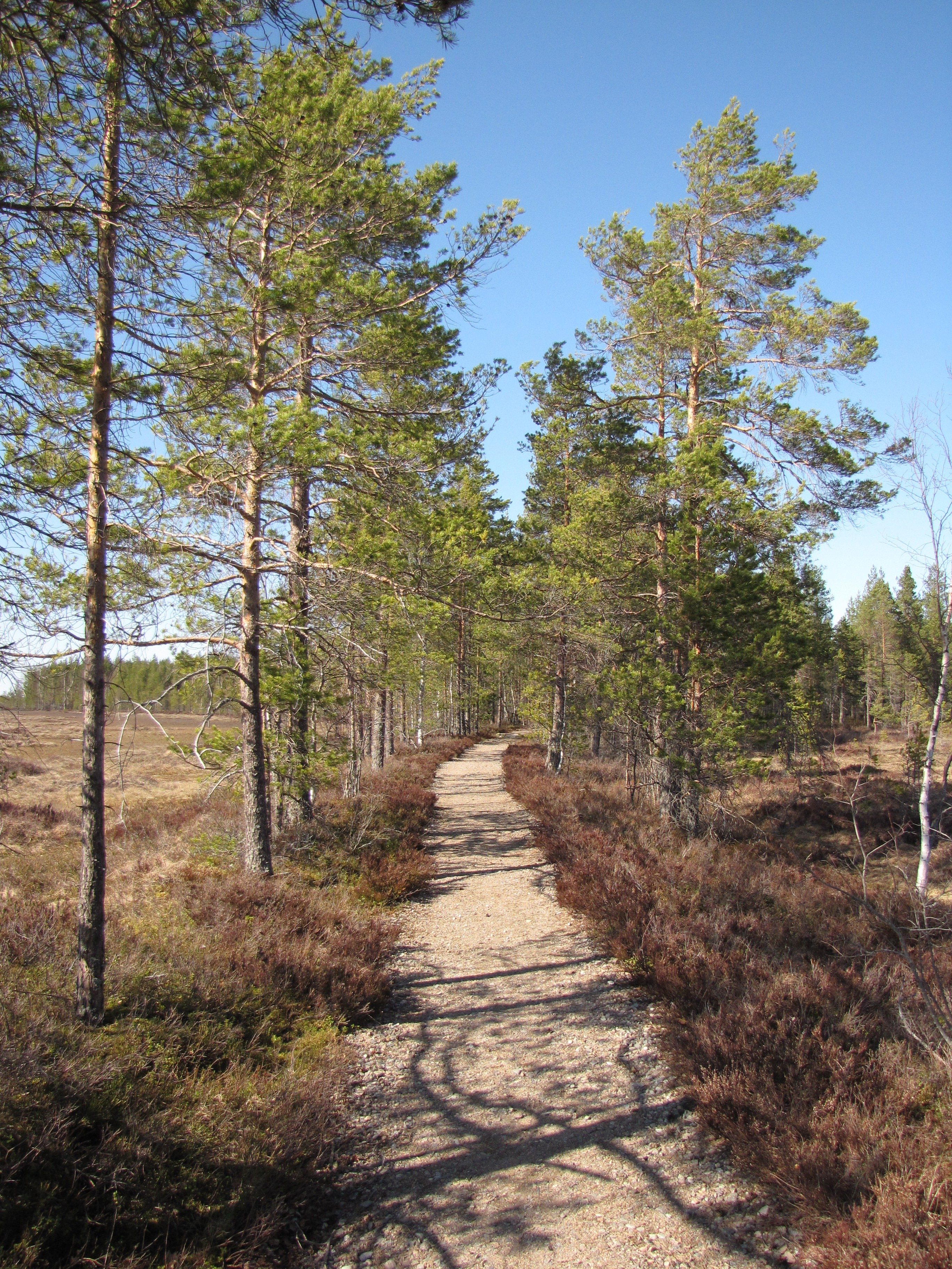 Kyrönkankaan kesätie road/trail in the Kauhaneva–Pohjankangas National Park, Finland.